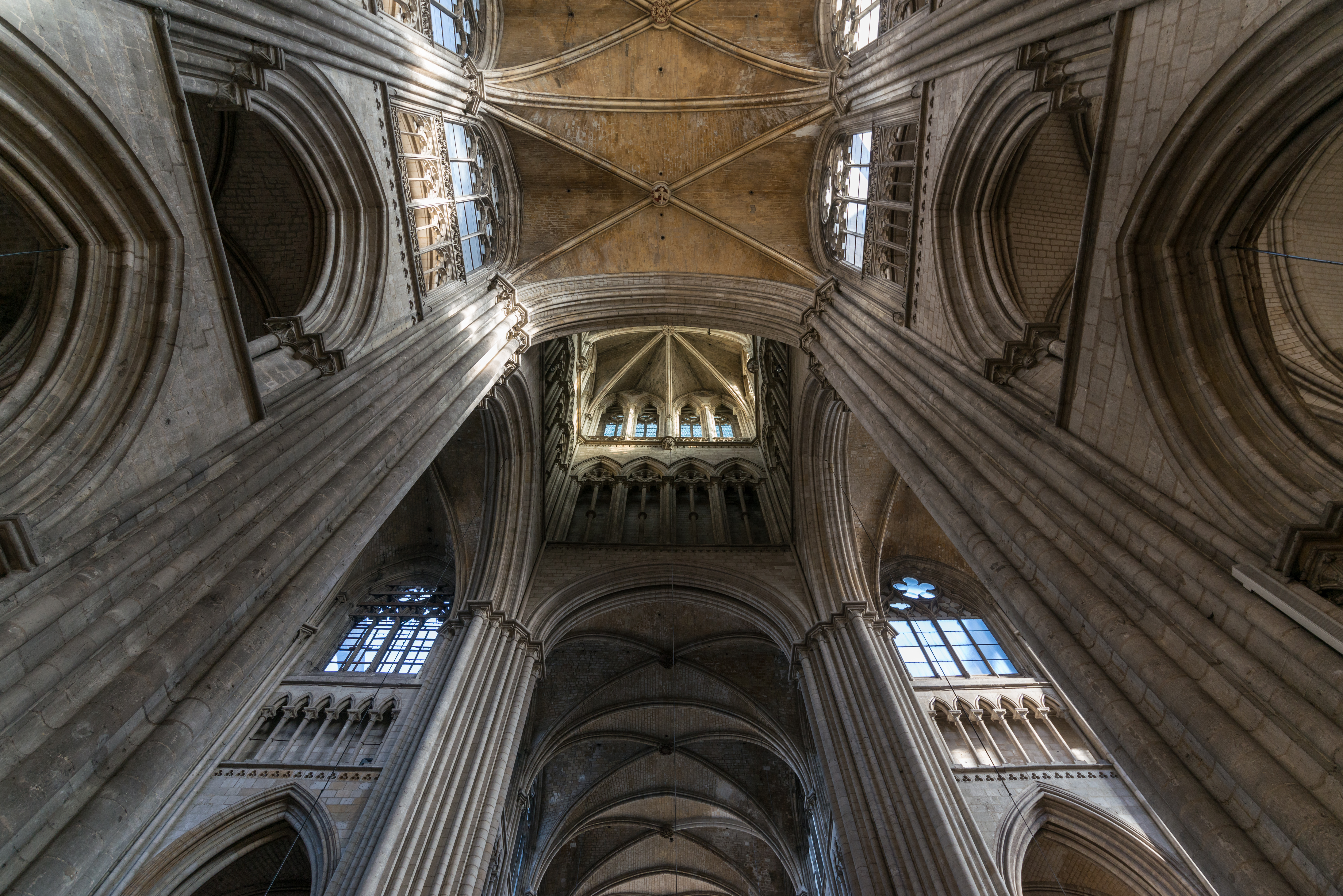 The transept and the crossing of Rouen Cathedral .